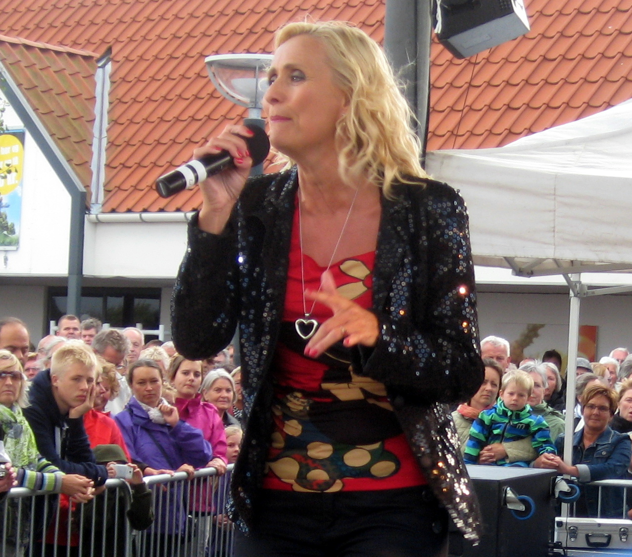 Lise Haavik, a Norwegian singer, performing in Blokhus, Denmark, 2012